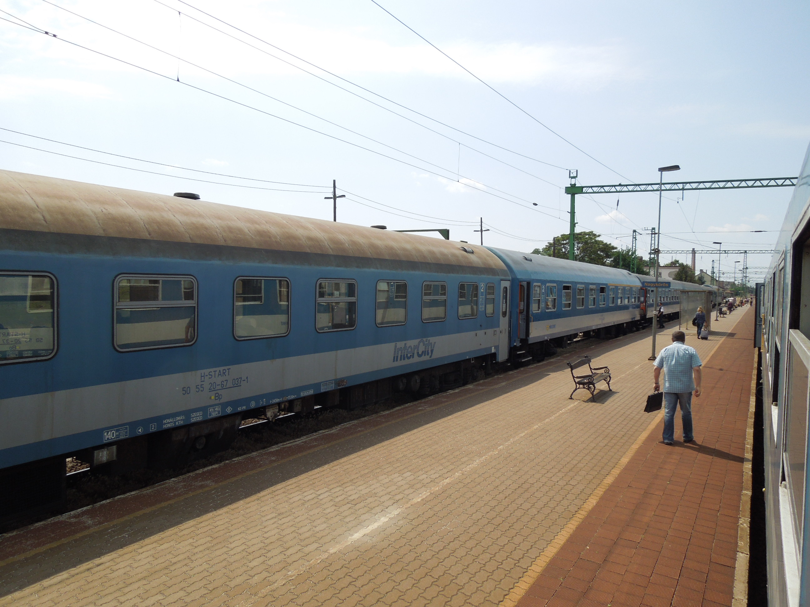 Hibrid IC in Nagykőrös